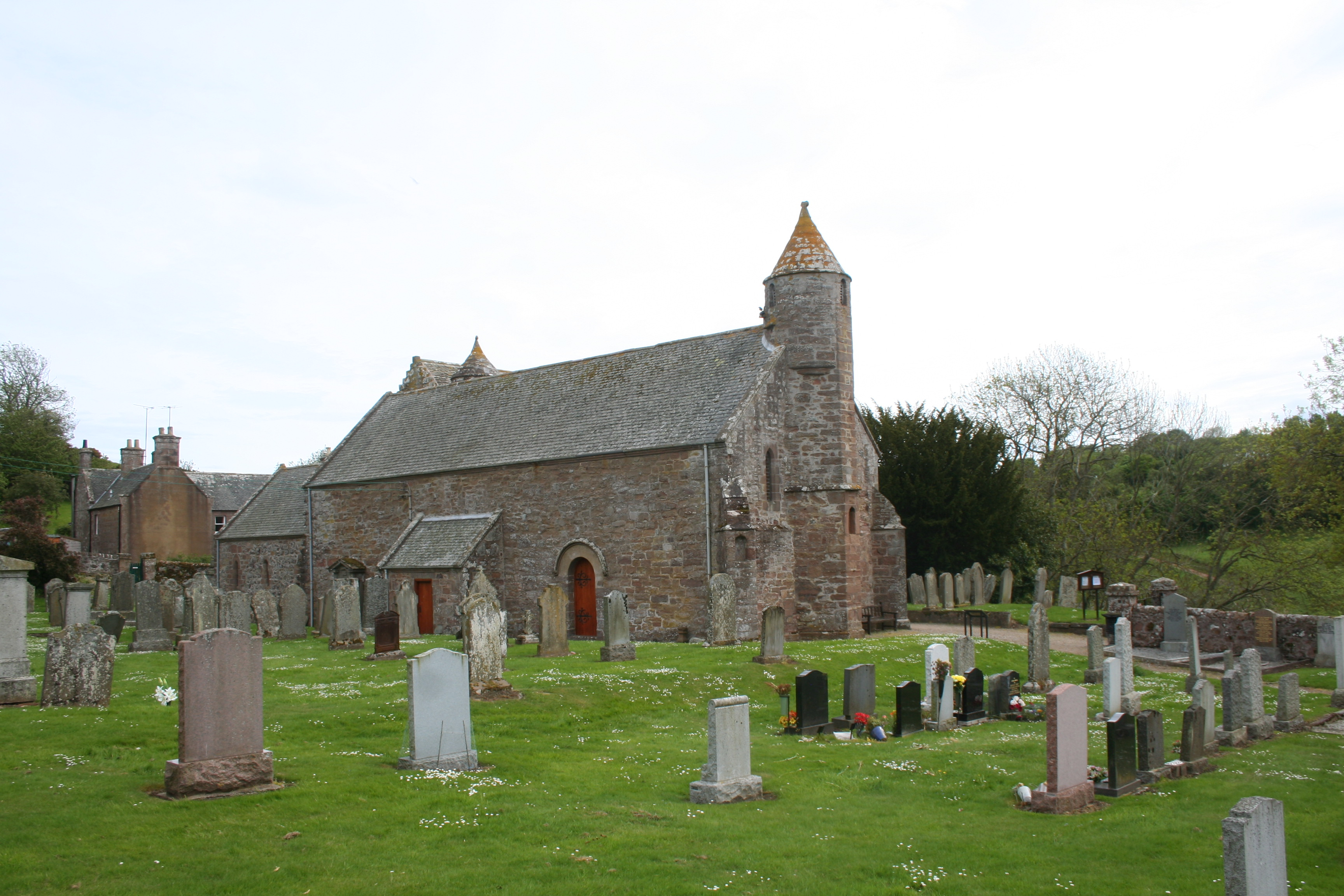 Kirk of St Ternan